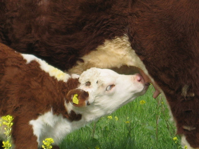 Milk is the best! This Hereford calf is a few weeks old. It will be weaned from its mother at six months. The round mark at the top of its head is where it has been dehorned.